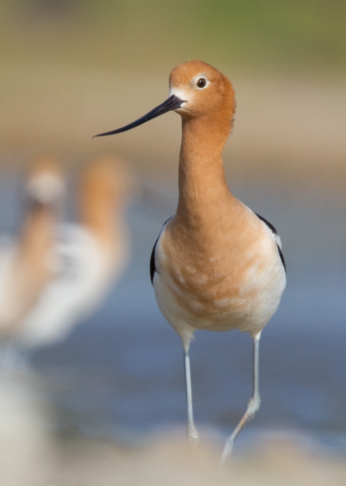 American Avocet frontal breeding plumage of Quintana, TX